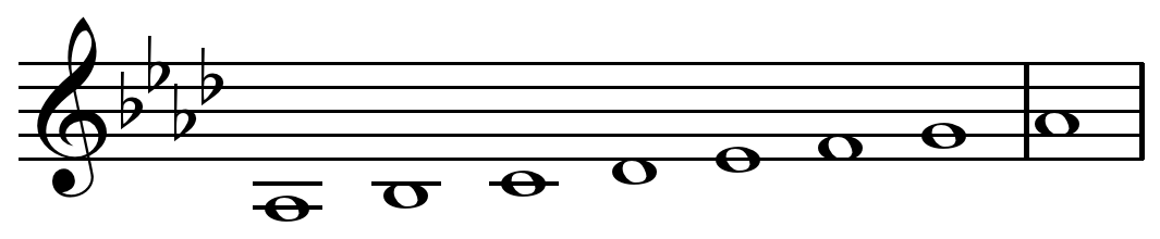 The Ab major scale in staff notation